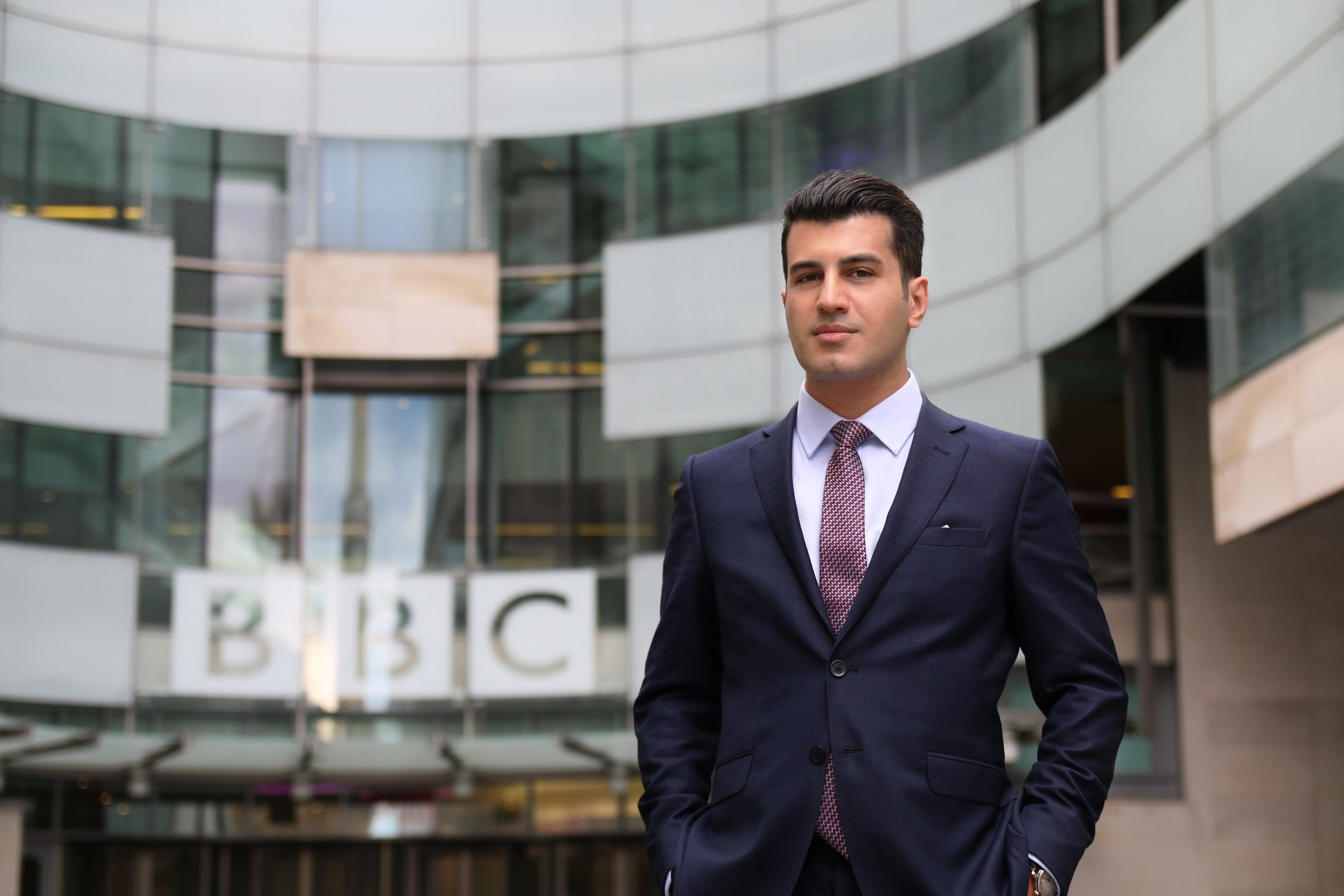 Fardad Farahzad in front of the BBC Broadcasting House